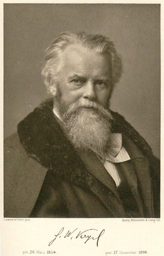 Photo of Hermann W. Vogel, scanned from his book